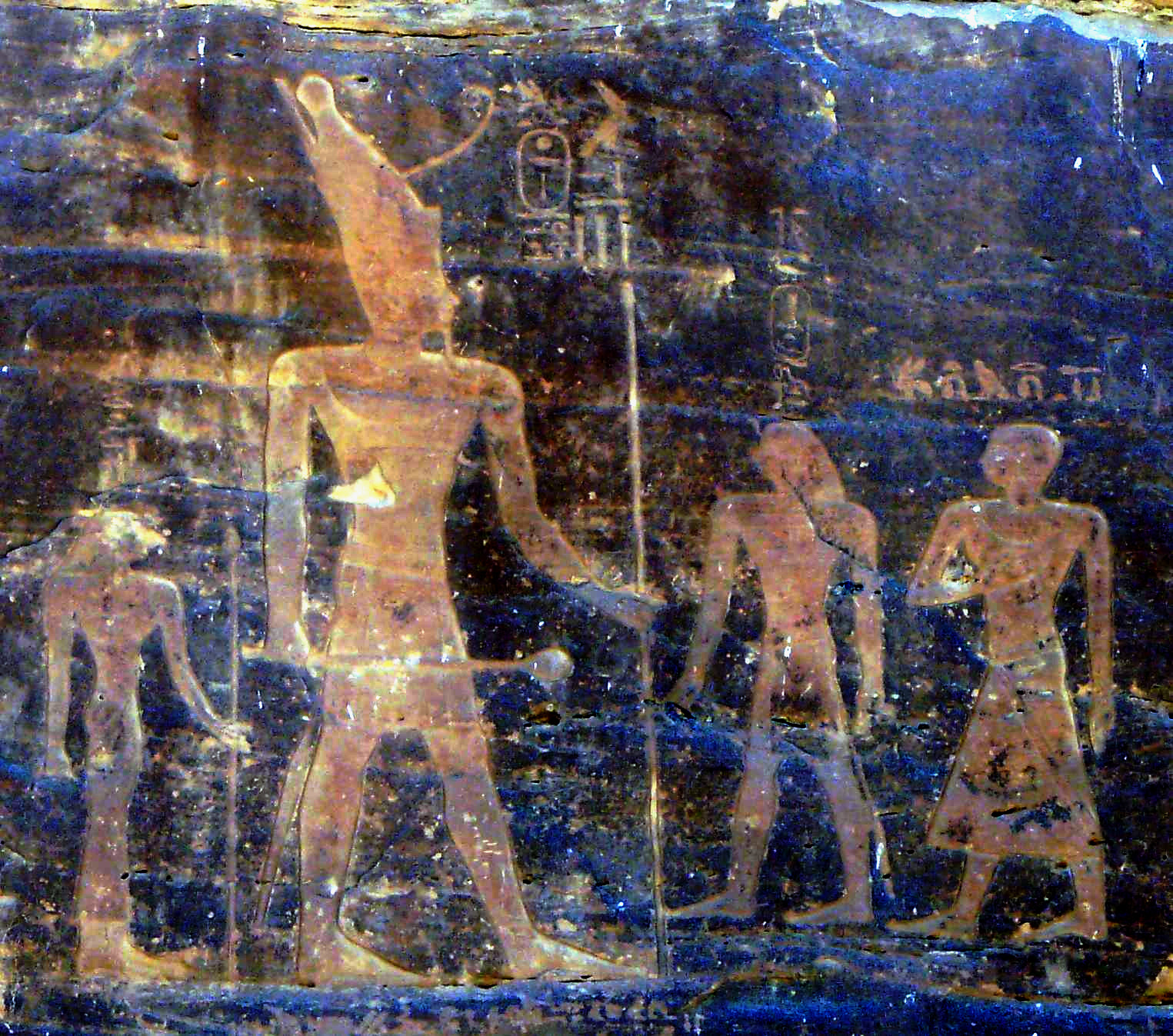 Shatt er-Rigal (Egypt); inscription of king Mentuhotep II